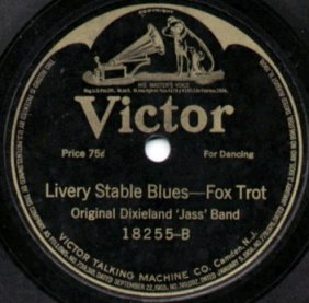 Label of a Victor Records disc by the Original Dixieland Jass Band, 1917